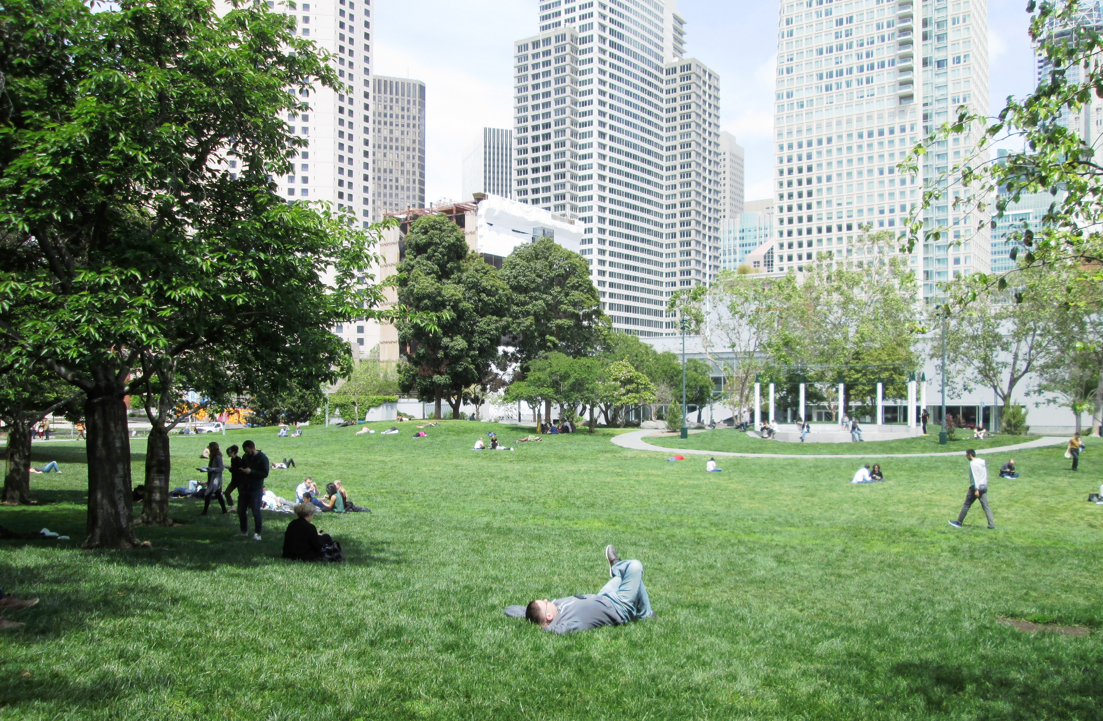 Yerba Buena Gardens in the South of Market (SoMa) neighborhood of San Francisco, is located between Mission, Howard, Third and Fourth Streets. This view looks north from the south corner of the park.